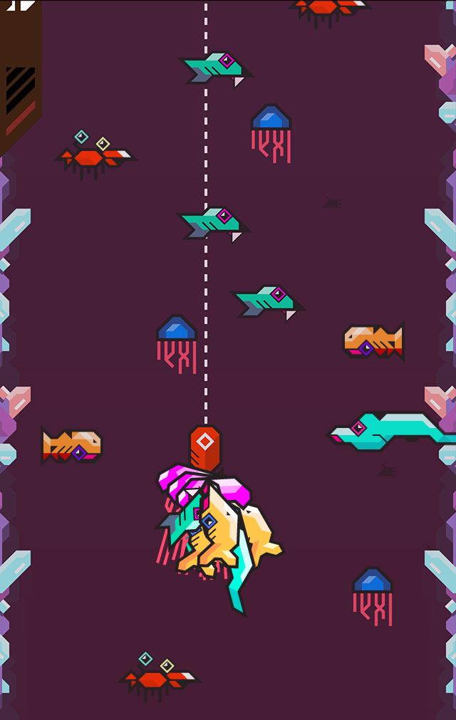 JPG version of PNG screenshot from Ridiculous Fishing, for better compression within article